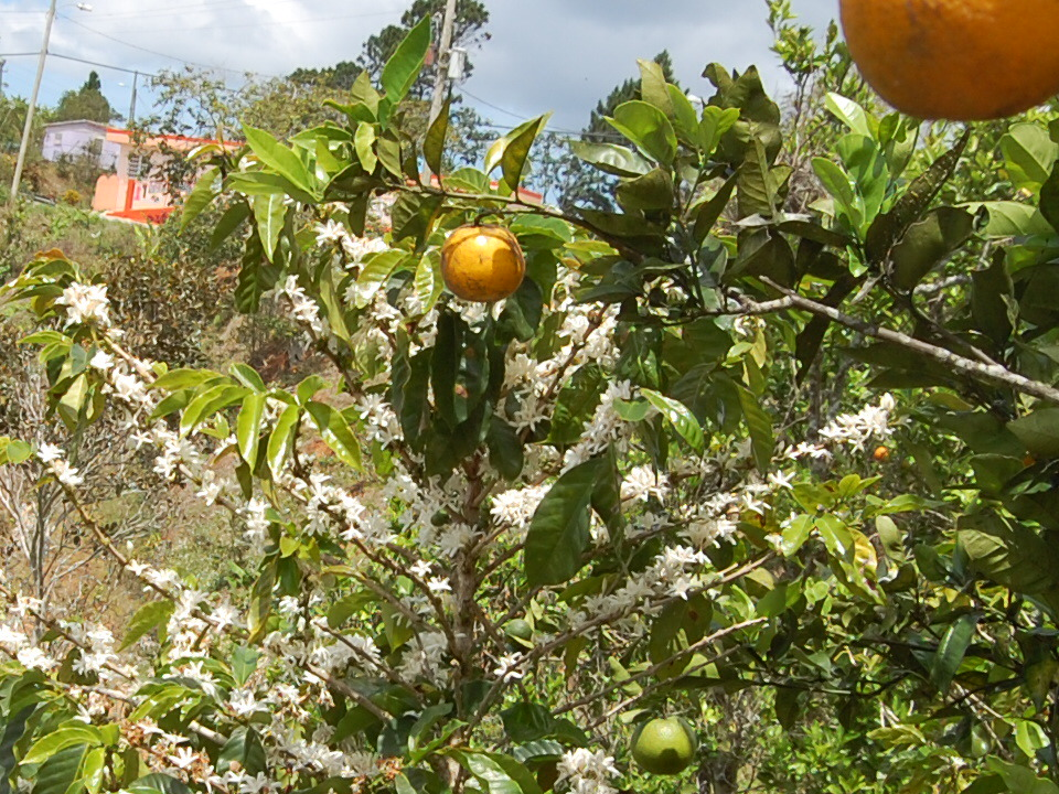 April 25, 2011-Maricao, Puerto Rico: These multicrop farms need the shade producing trees to protect their crops from wind damage and minimize soil erosion.